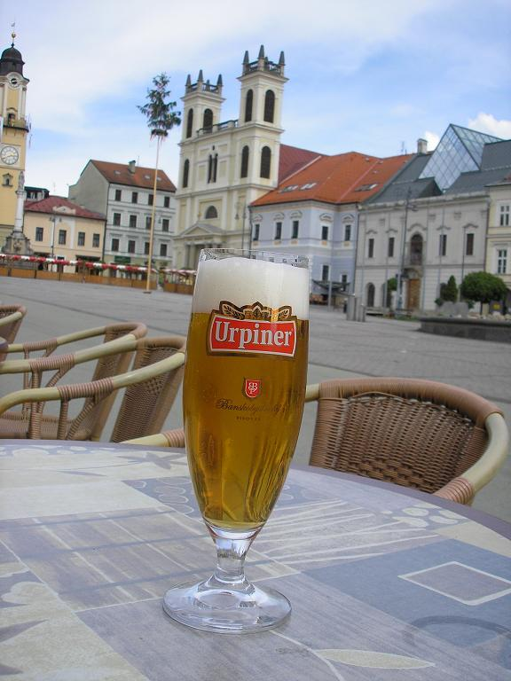 urpiner